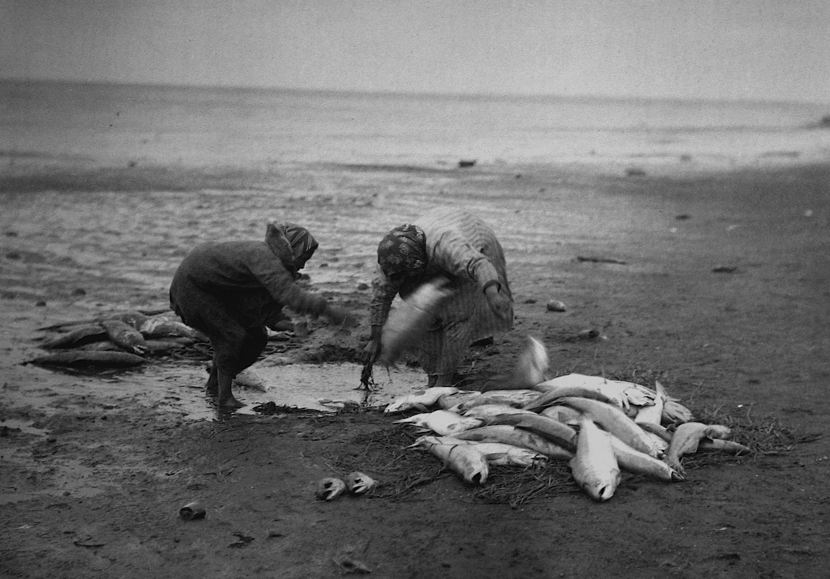 Albatross, AK, 1900, Bristol Bay district, Eskimo women cleaning salmon on beach near A.P.A. cannery, Ugashik River. Image ID: fish7601, NOAA's Historic Fisheries Collection Location: Alaska, Bristol Bay area Photo Date: 1900